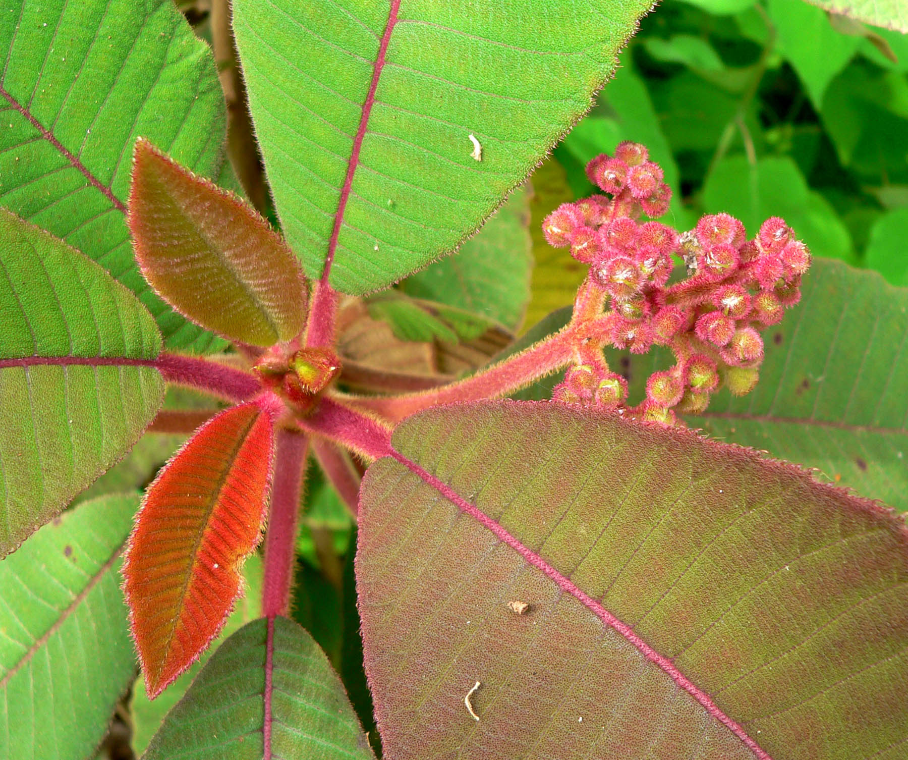 Photo of Saurauia madrensis at the University of California Botanical Garden